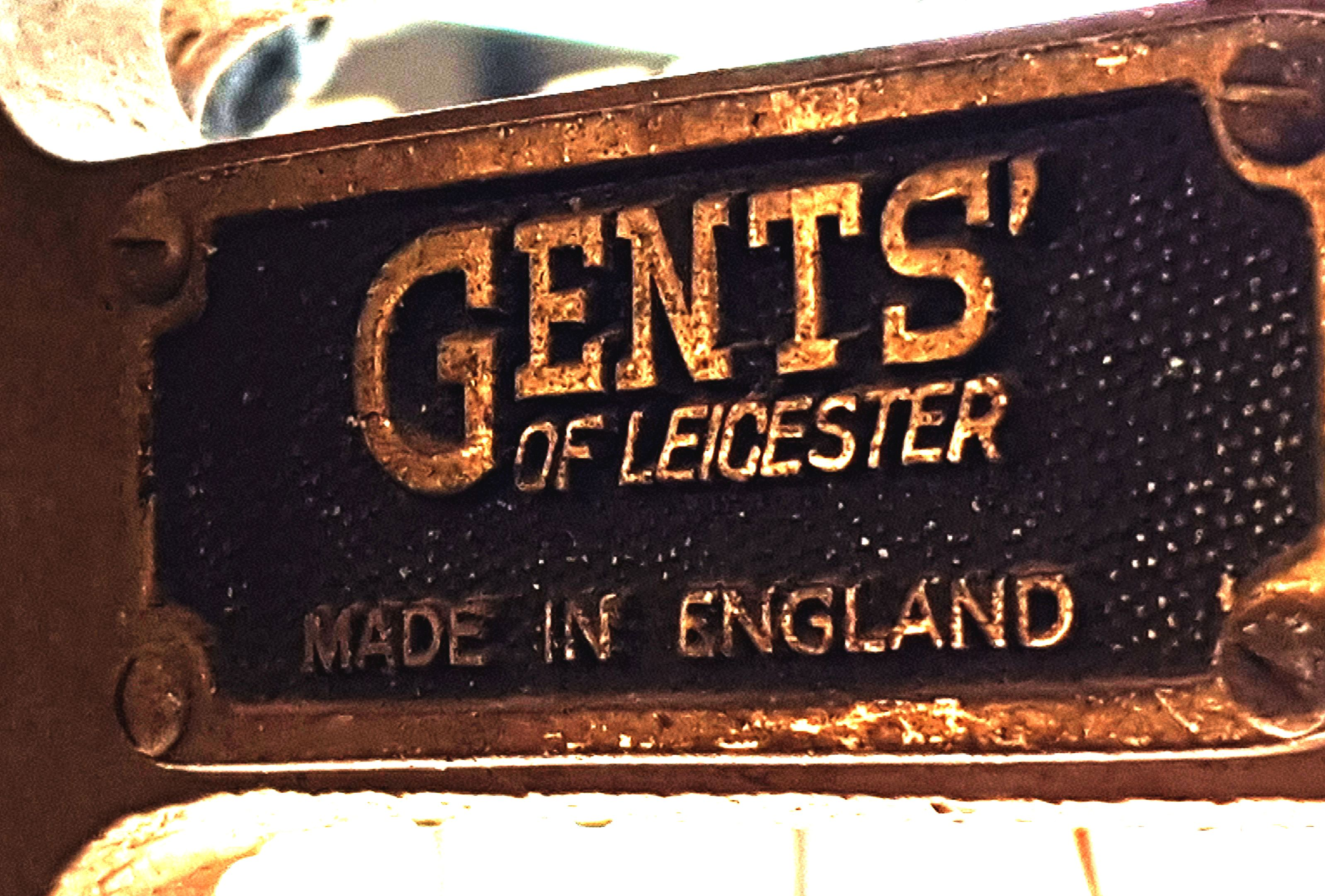 Typical Gents' of Leicester logo on a Gents' Pulsynetic, C40A, Waiting Train, Turret Clock (1940s/50?).